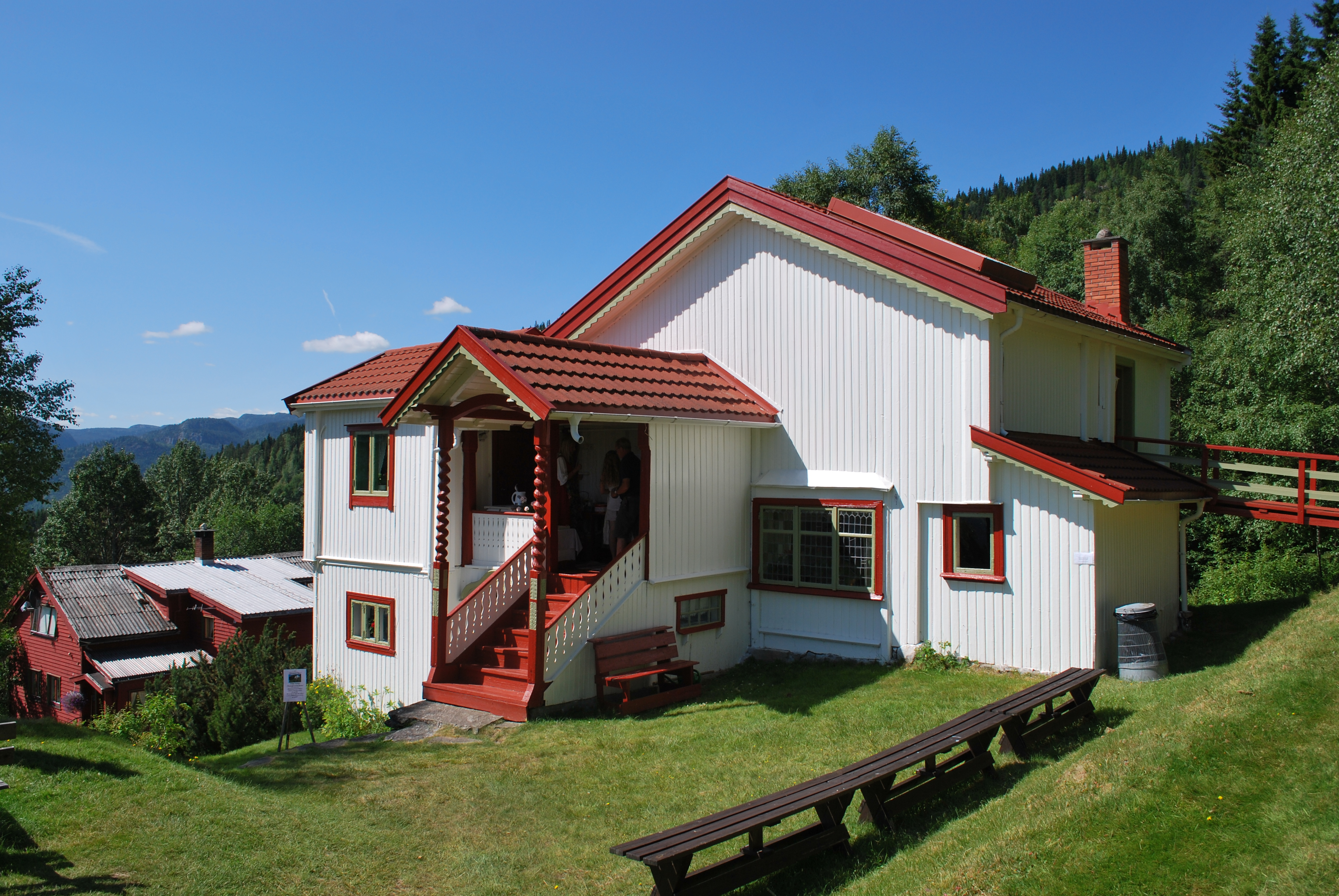 Hagan, home of the Norwegian painter Christian Skredsvig, seen from the garden